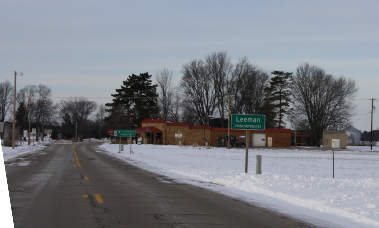 Looking north at the gas station in Leeman, Wisconsin on Wisconsin Highway 187.